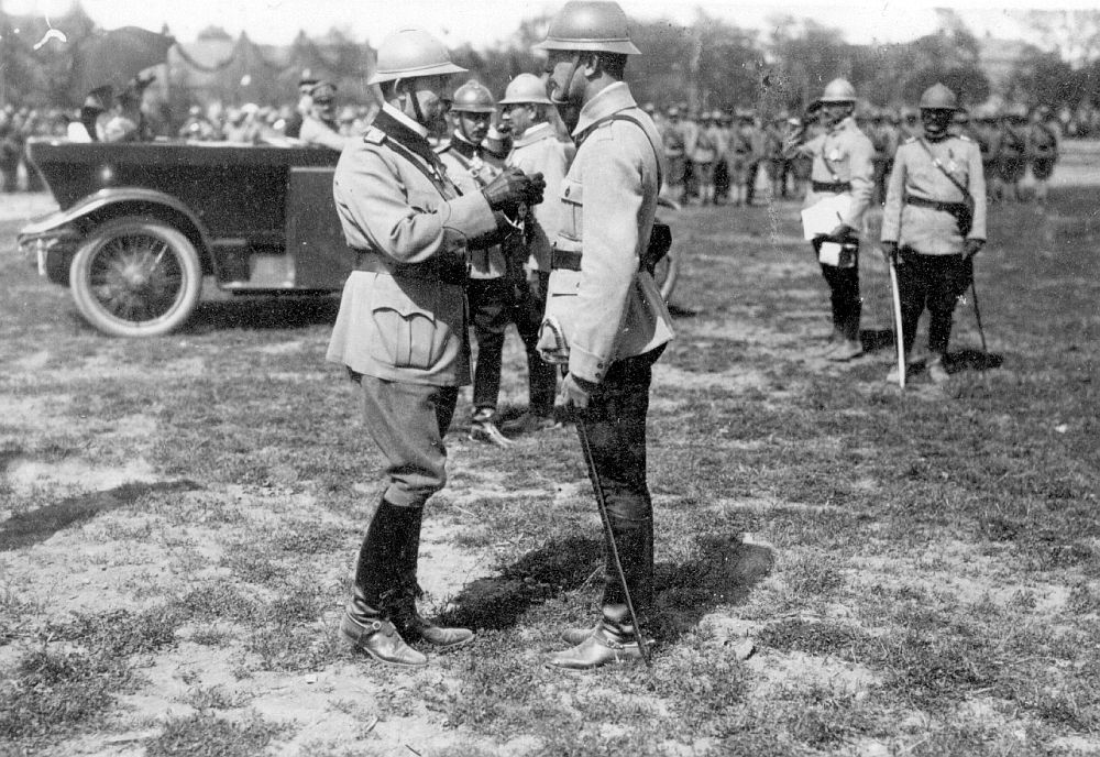 King Ferdinand is decorating lieutenant Ghica from the 14th Artillery Regiment.